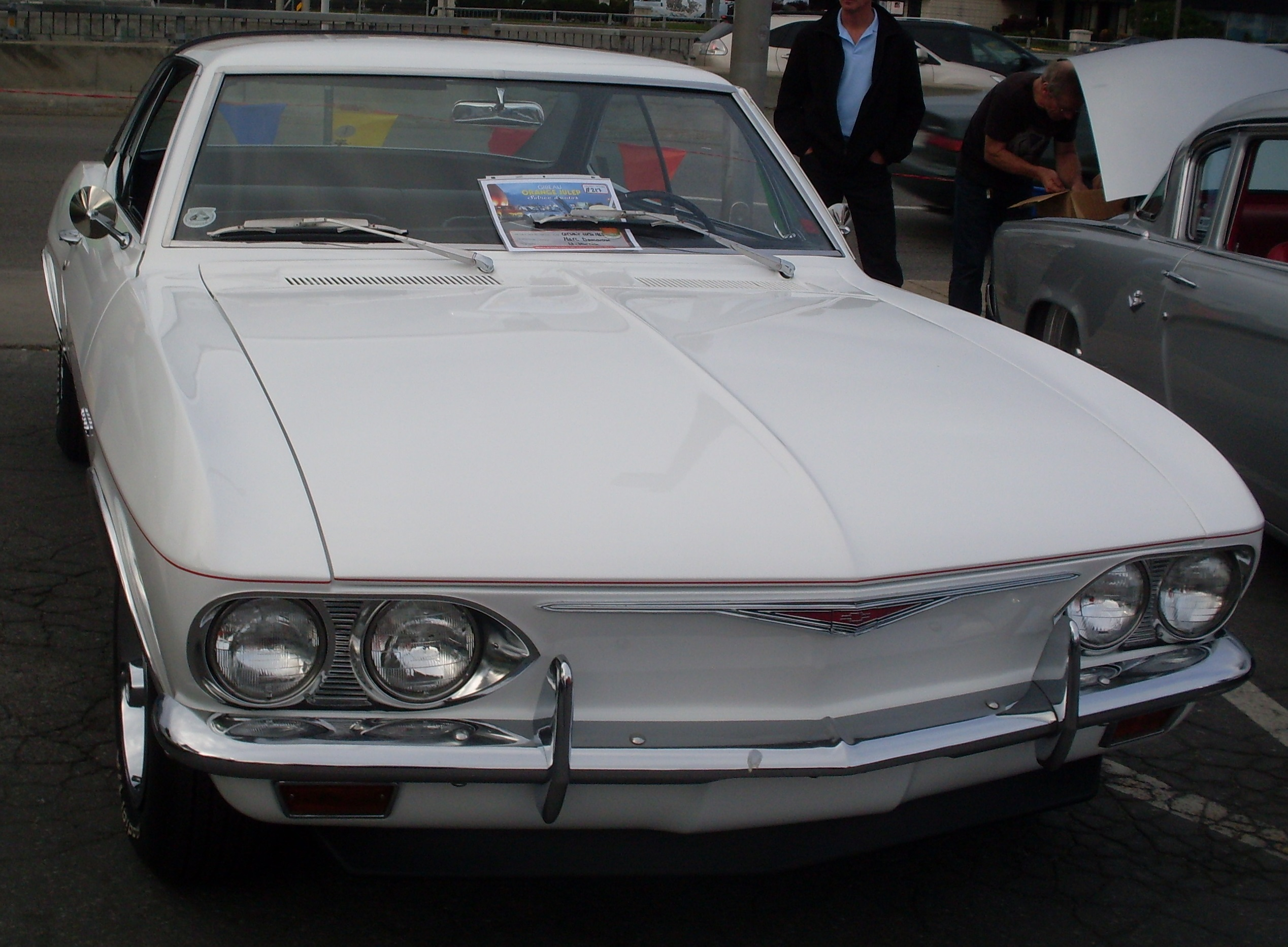 1965 Chevrolet Corvair photographed in Montreal, Quebec, Canada at Gibeau Orange Julep.